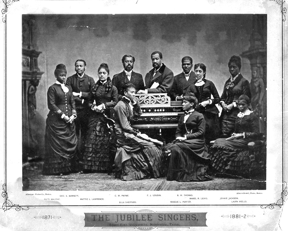 The Fisk Jubilee Singers in 1882. They are, from left to right, Patti Malone, George E. Barrett, Mattie L. Lawrence, C.W. Payne, Ella Shepard (seated), F.J. Loudin, Maggie L. Porter (seated), B.W. Thomas, and Mabel R. Lewis (seated).